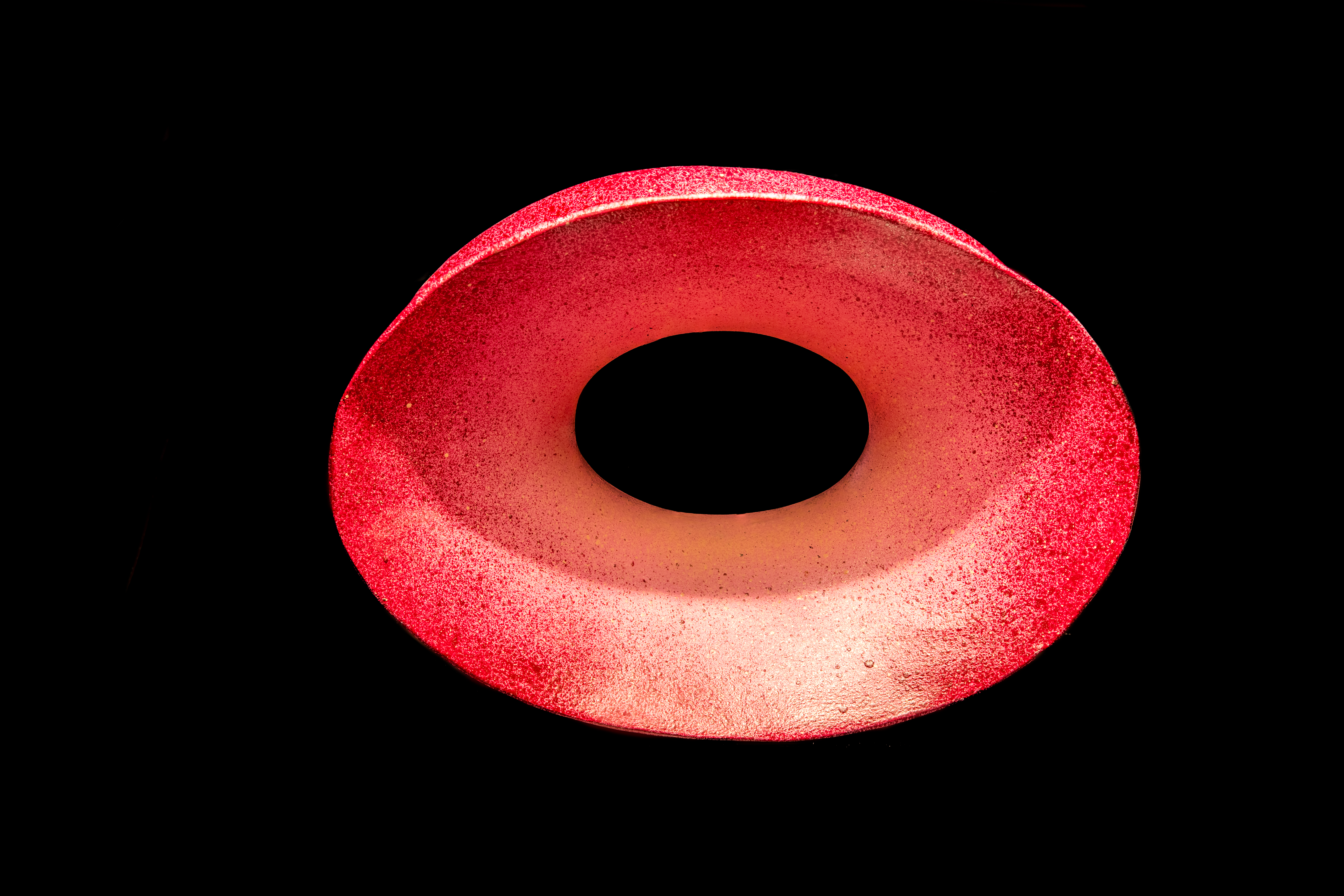 Mathematical surface of hyperboloid of one sheet, object is part of the Matemateca (IME/USP) collection.